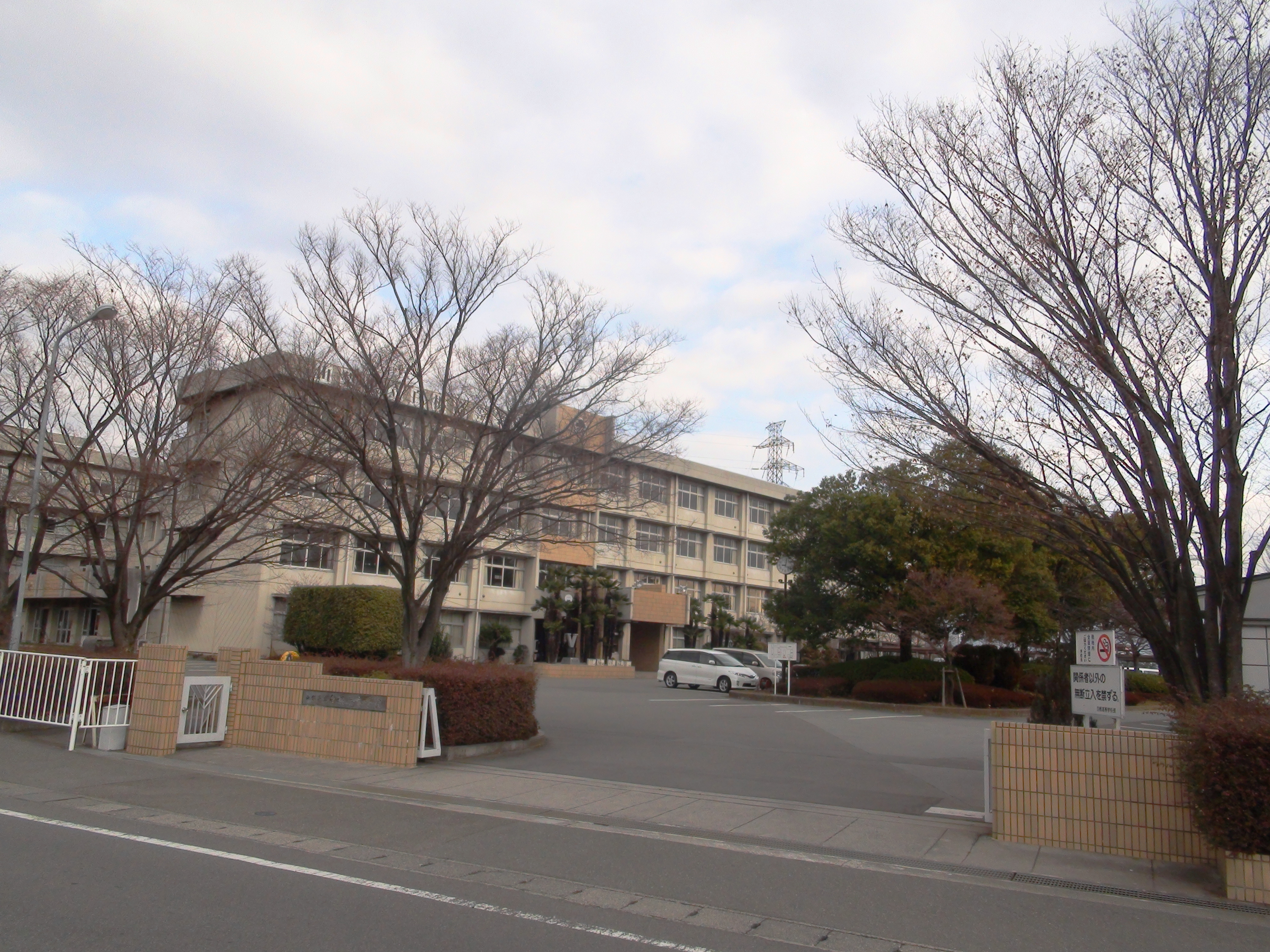 Yamanashi prefectural Shirane High School